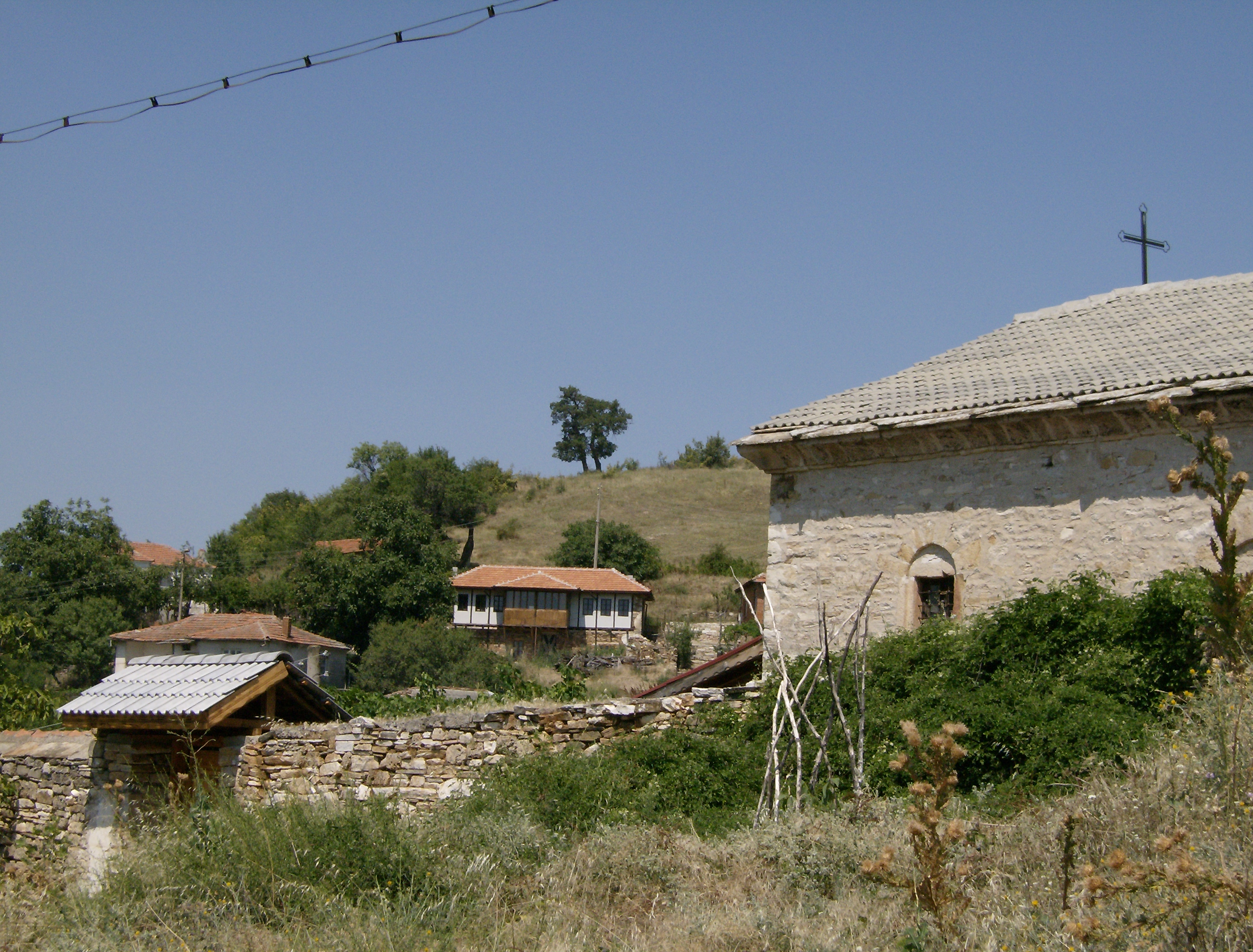 Kamilski dol